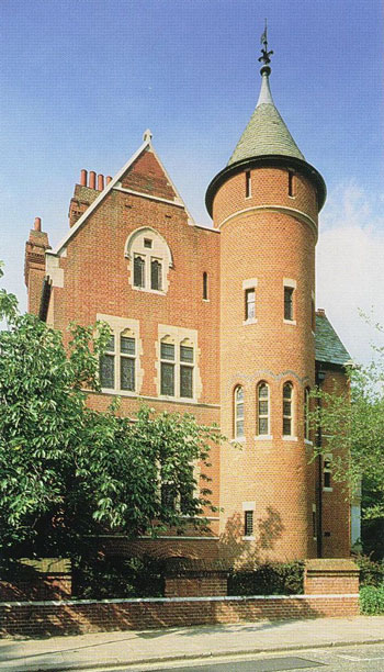 The Tower House, Melbury Road, Kensington